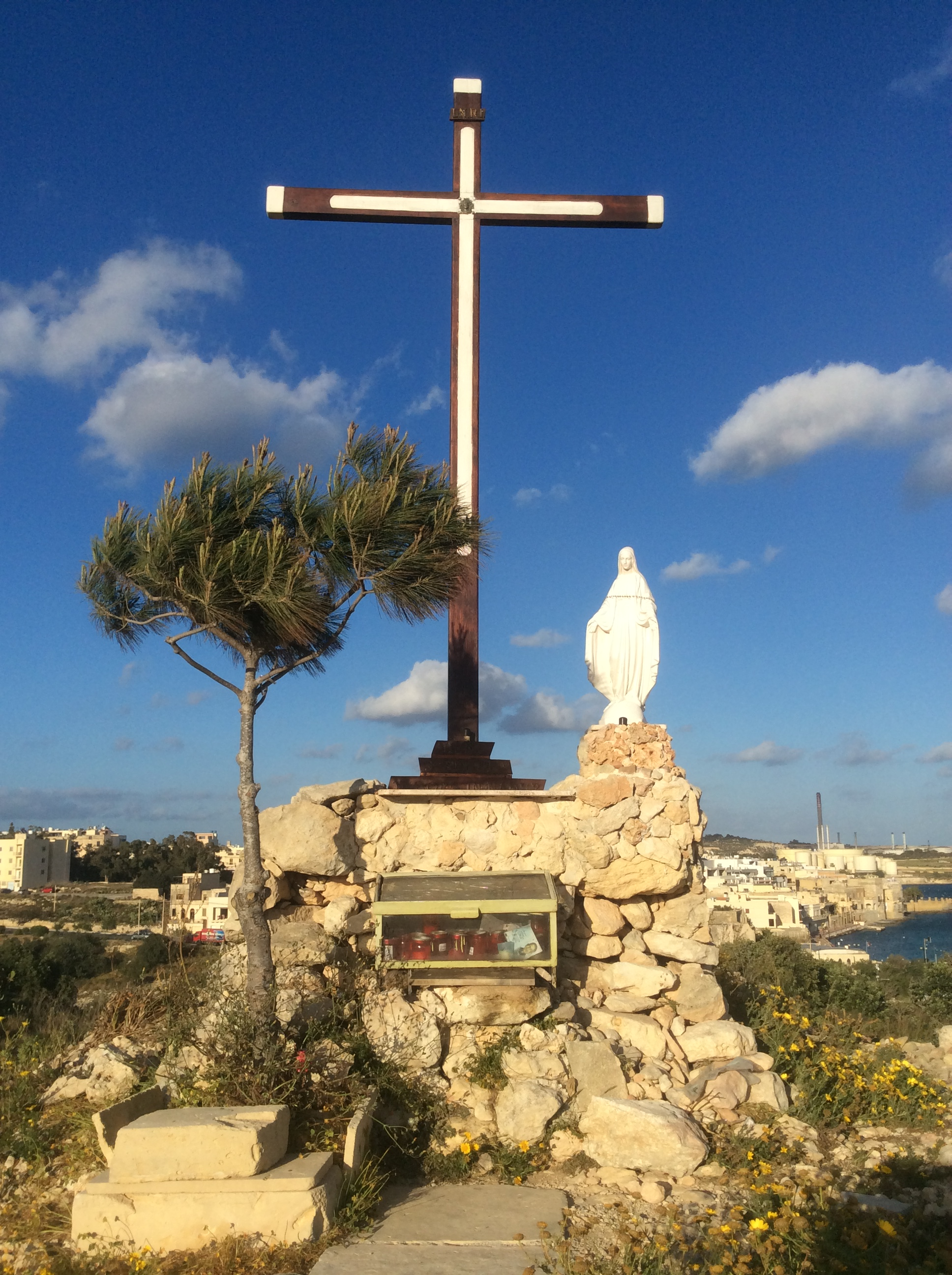 Borg in-Nadur Hill Cross, Angelik Cross